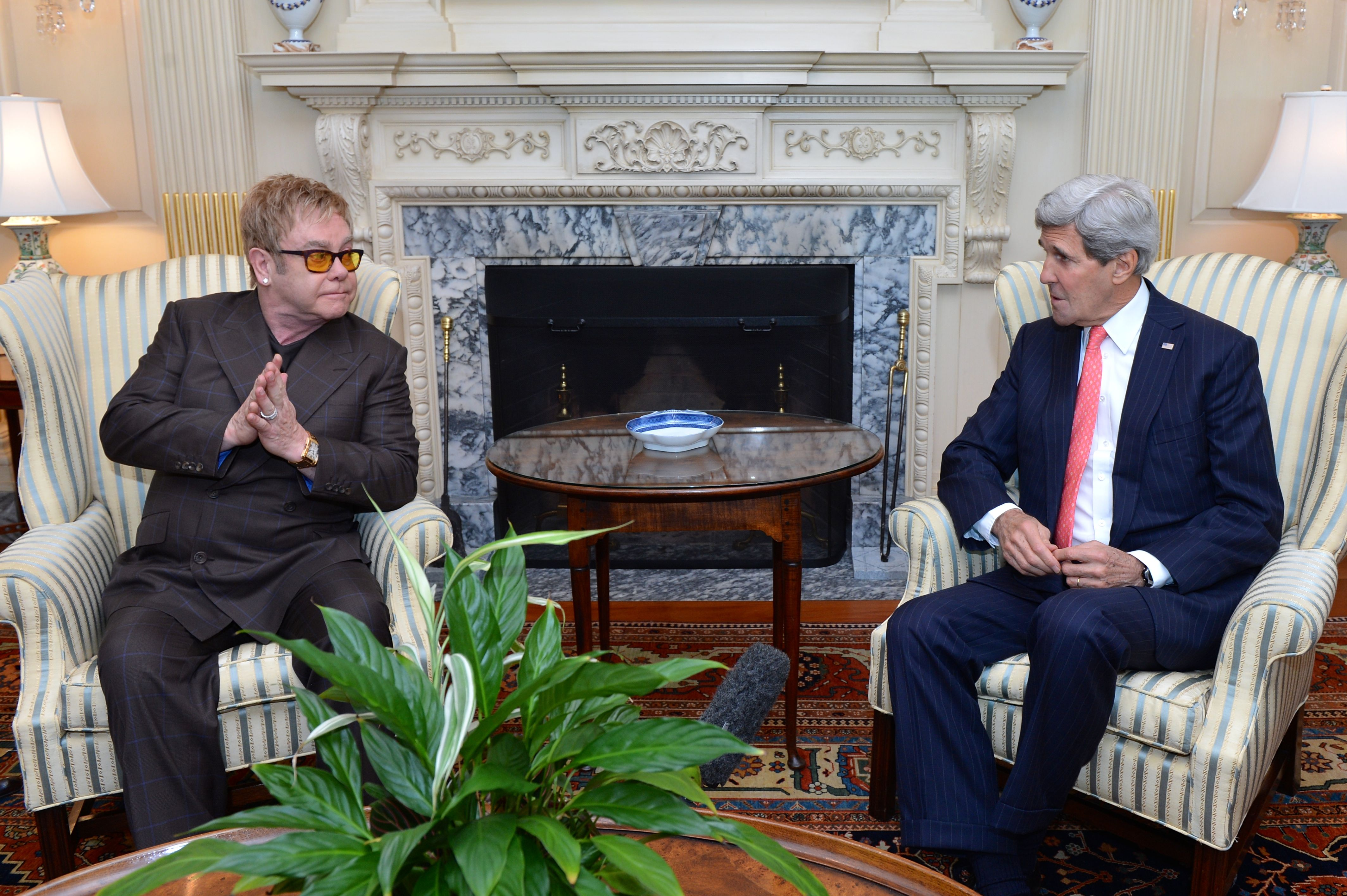 U.S. Secretary of State John Kerry meets with Sir Elton John to discuss PEPFAR and the work of the Elton John AIDS Foundation at the U.S. Department of State in Washington, D.C., on October 24, 2014. [State Department photo/ Public Domain]